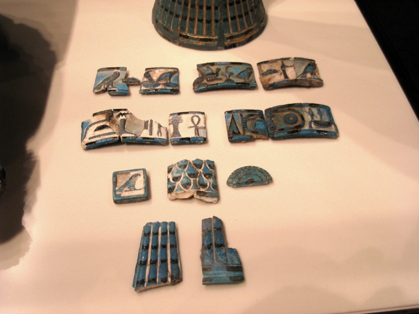 Inlays of a ritual vase with the cartouche of Neferirkare Kakai - 5th dynasty of Egypt - Egyptian museum of Berlin